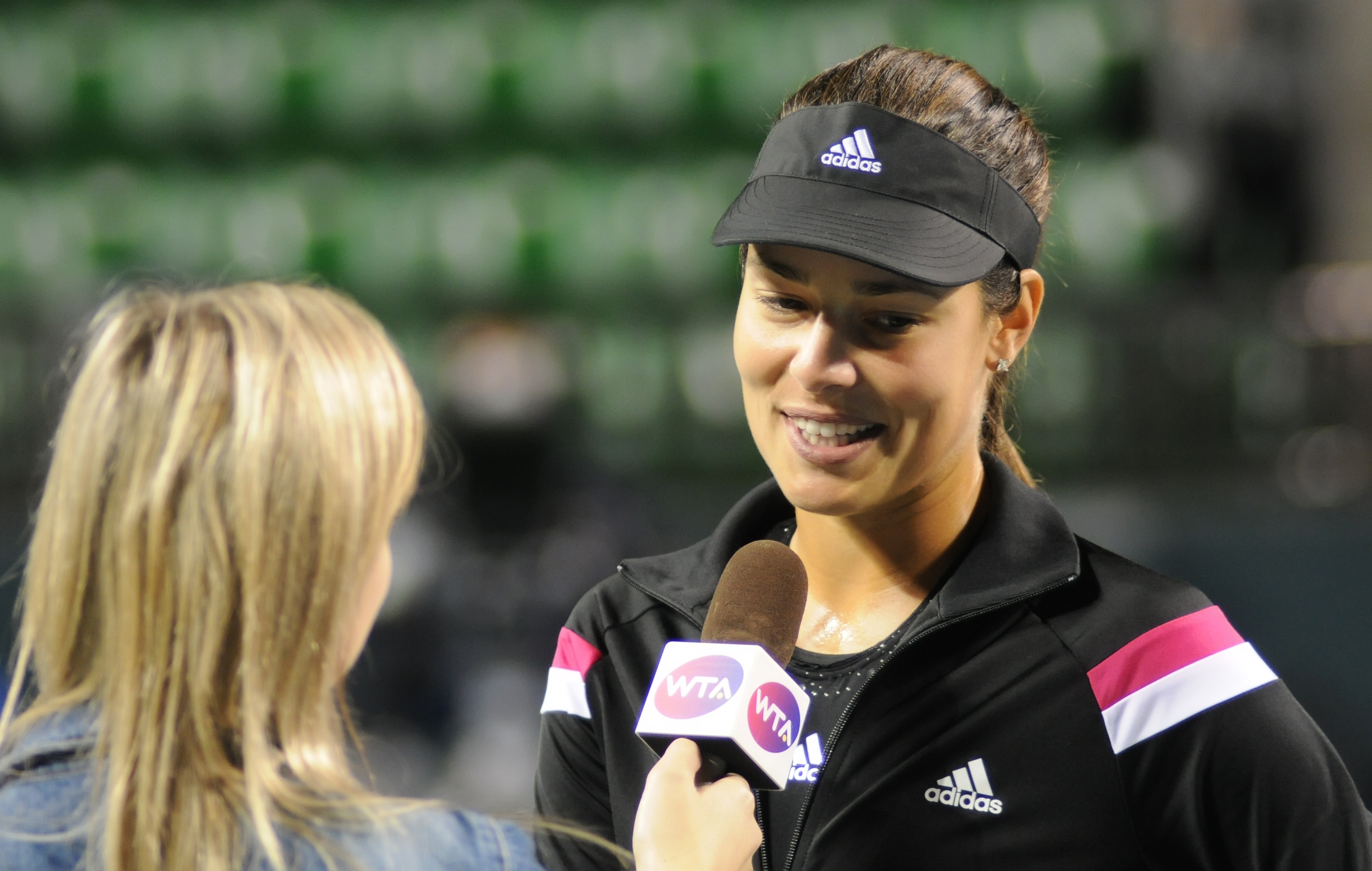 Ana Ivanović at the 2014 Toray Pan Pacific Open